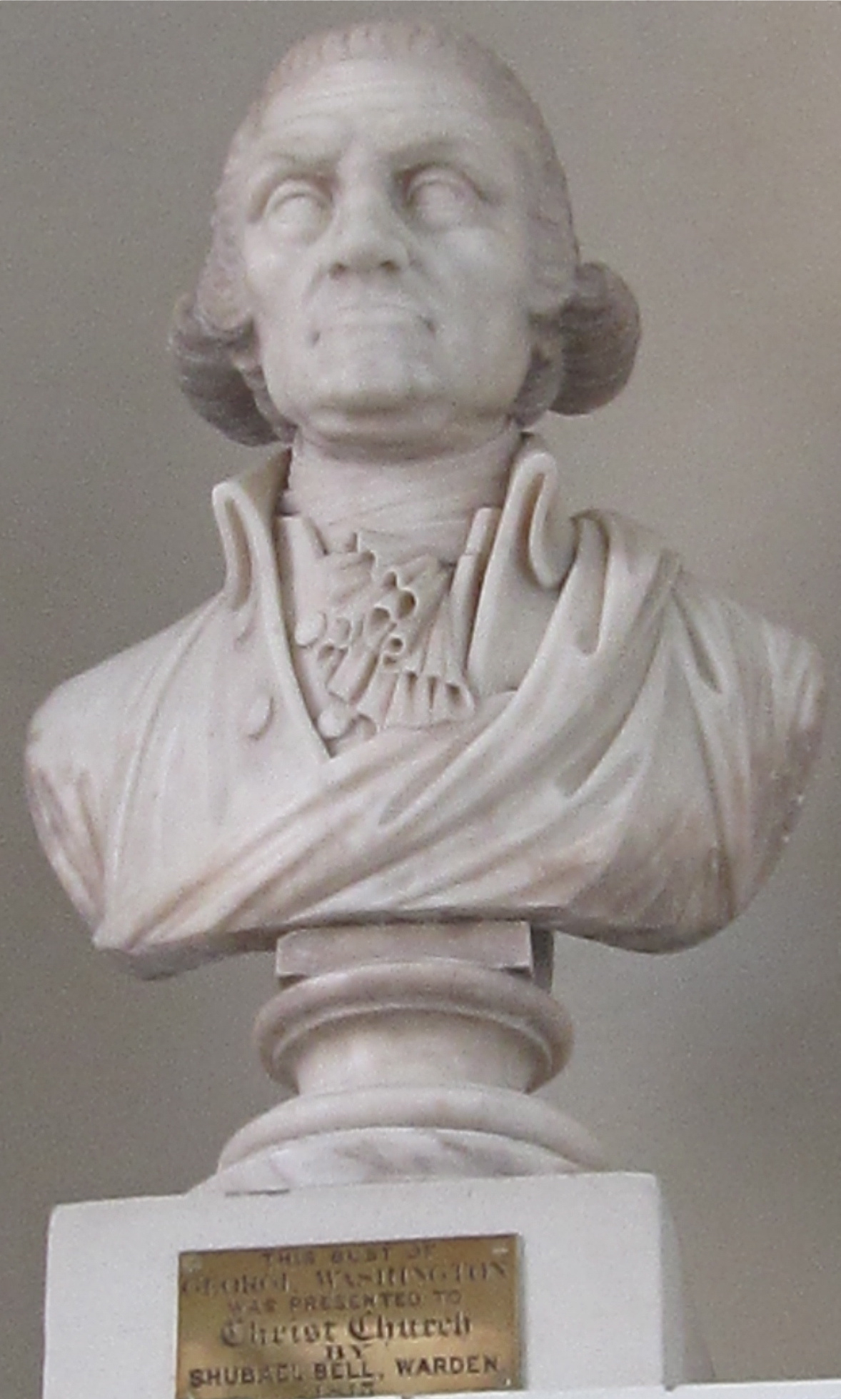 Boston, Massachusetts